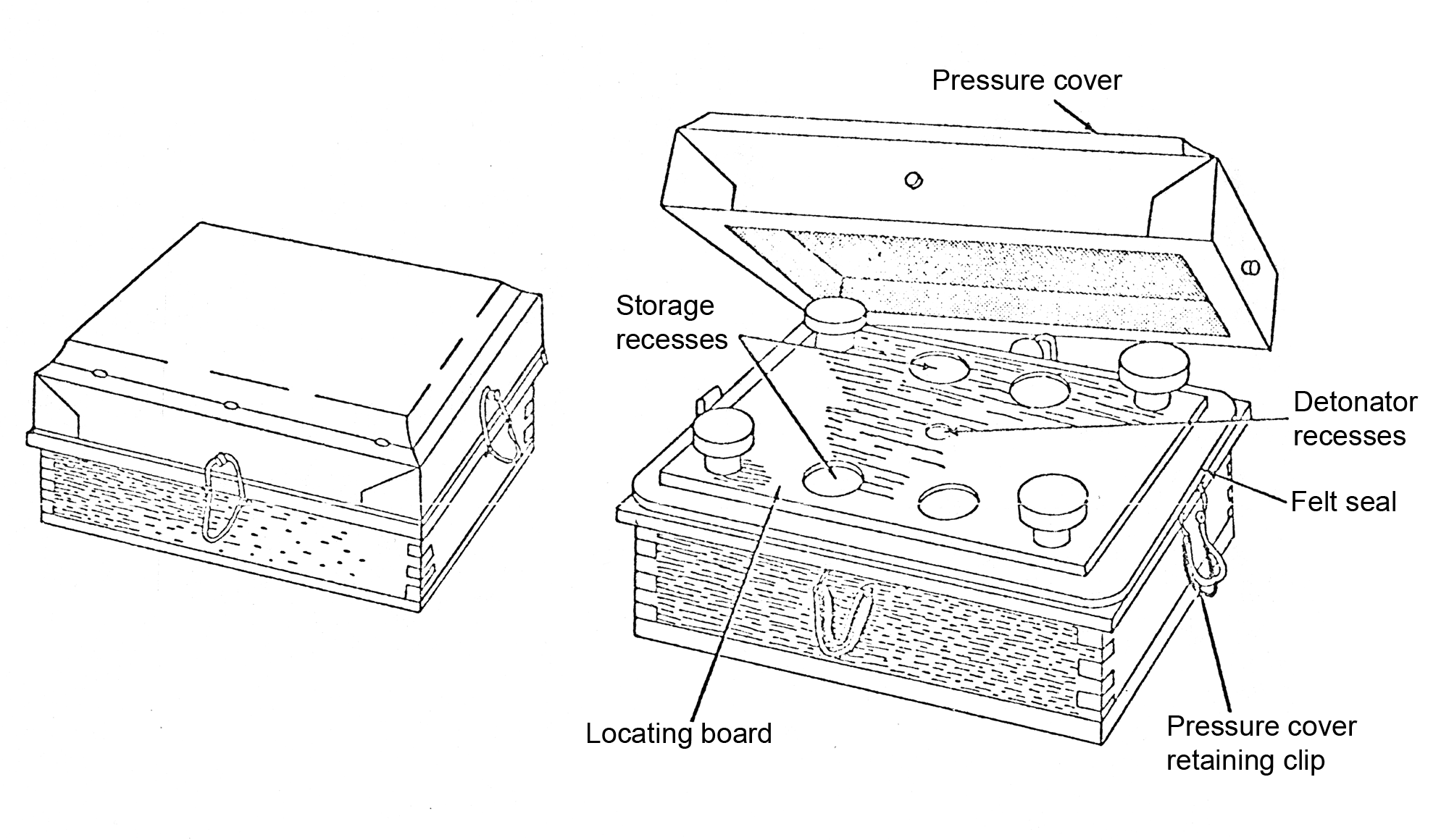 A CS 42/2 Italian Second World War anti-tank landmine